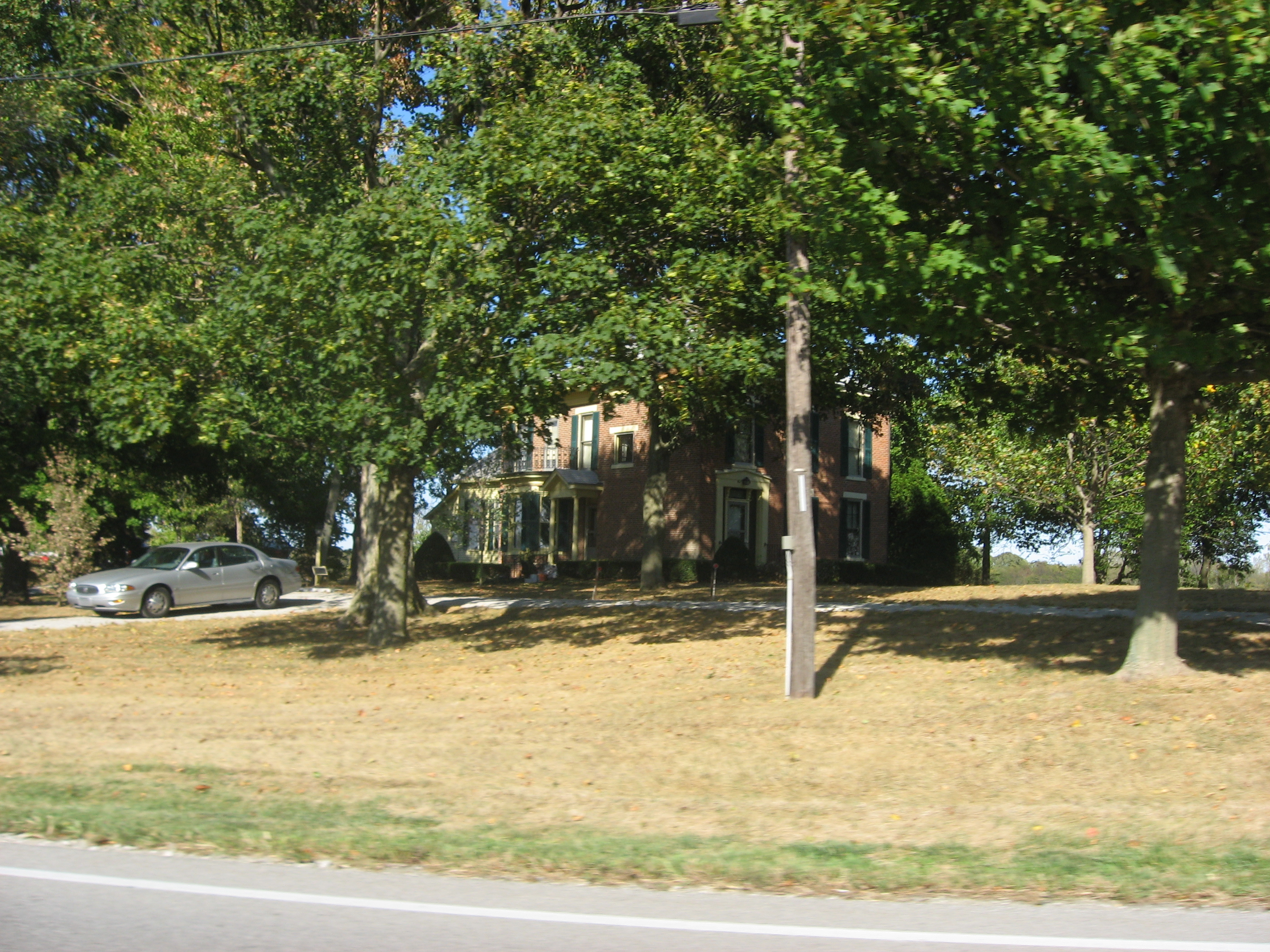 Roadside view of the farmhouse at the Van Nuys Farm, located along State Road 144 near Hopewell in Franklin Township, Johnson County, Indiana, United States. Built in 1840, the house and ten other farm buildings are listed together on the National Register of Historic Places.